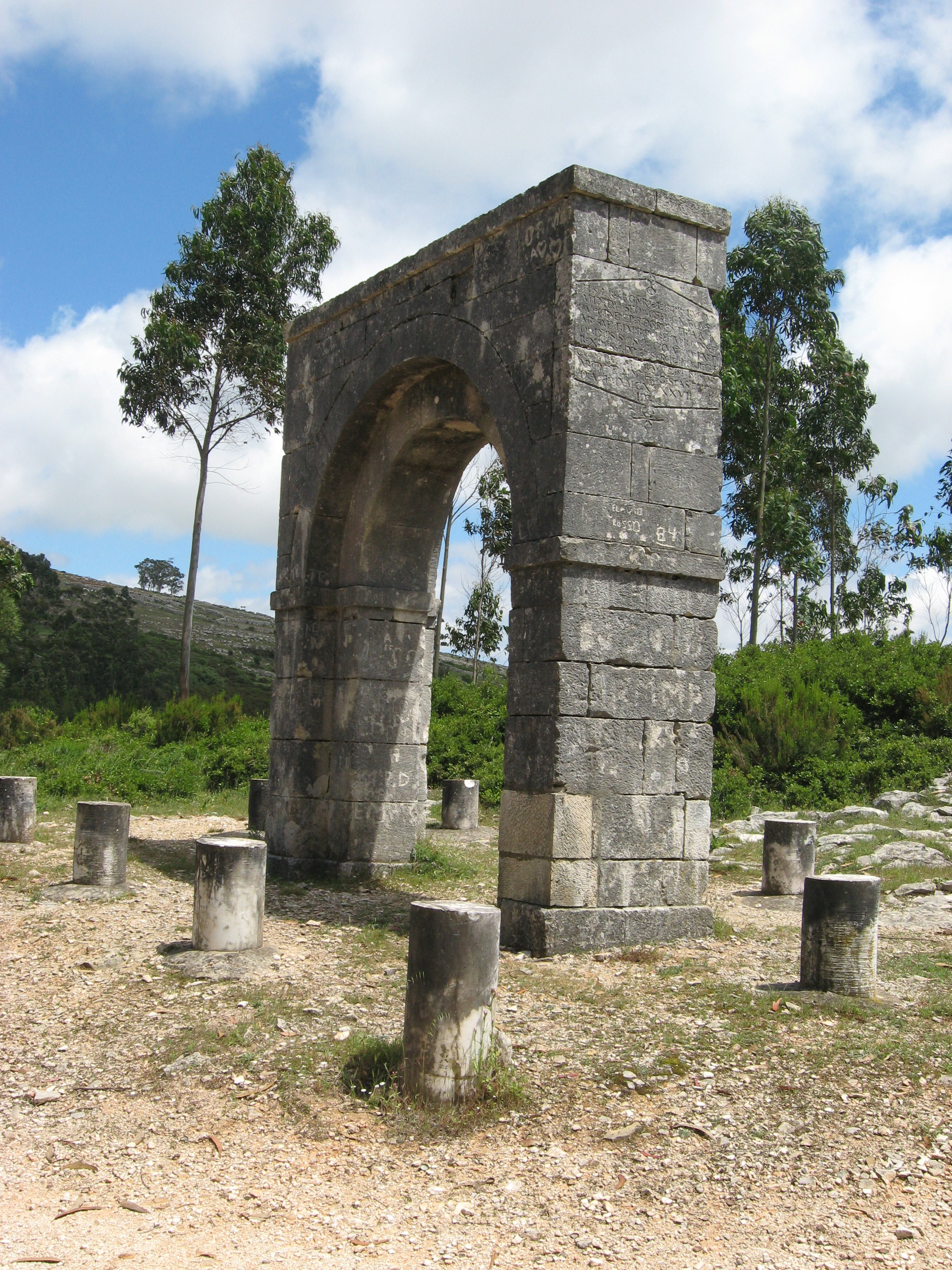 Alcobaça, Portugal, Mosteiro, Coutos, former county of the Mosteiro, one of the old 13 cities of the Coutos: Évora de Alcobaça, Arco de Memória, Arrimal, Porto de Mós